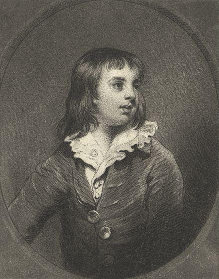 Extracted from Lord John Cavendish; Frederick Ponsonby, 3rd Earl of Bessborough; John Stuart, 1st Marquess of Bute; George Howard, 6th Earl of Carlisle; Ludovico, Count Belgioso; William Davidson.